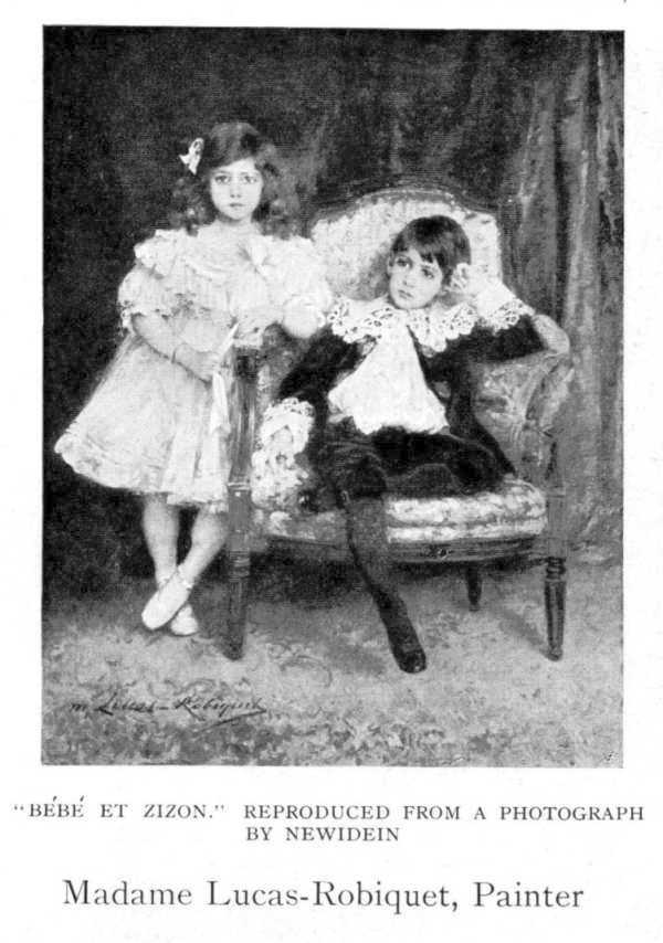 1905 print after page of Women painters of the world, from the time of Caterina Vigri, 1413-1463, to Rosa Bonheur and the present day, by Walter Shaw Sparrow, The Art and Life Library, Hodder & Stoughton, 27 Paternoster Row, London